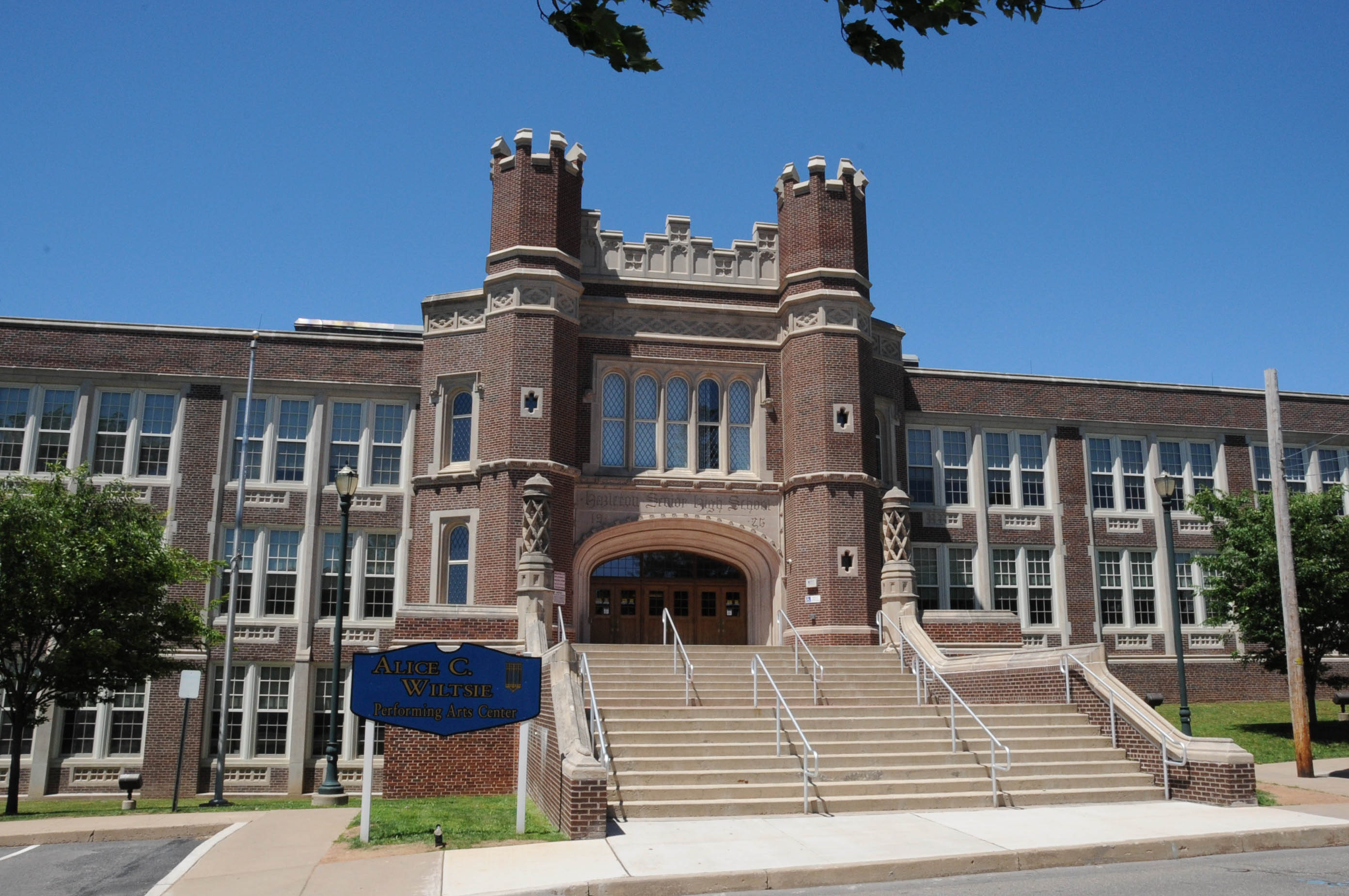 Built in 1926 as Hazleton High School, known as the castle, it was the first million-dollar school constructed in Pennsylvania, but by 1998, the school was scheduled for demolition. Through a grass roots effort in January 2007, the building was rededicated as Hazleton elementary/middle school. The restored auditorium is now the Alice C. Wiltsie Performing Arts Center.